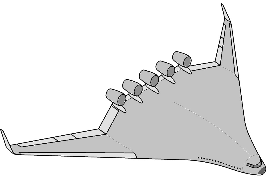 Blendet Wing Body